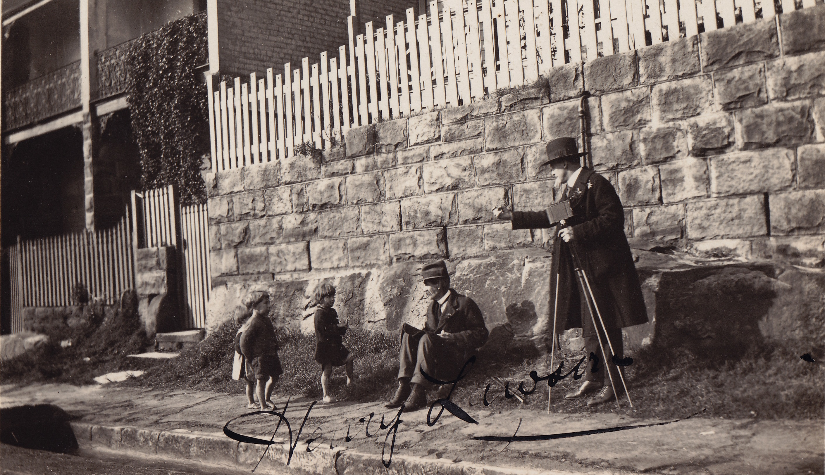 There is just one week to go until RAHS Senior Vice President Christine Yeats presents our next webinar: 'Researching in the Digital Age – Using ' ' to research local and community histories'. This webinar will help researchers make the most of the records that have been indexed and digitised by . Christine Yeats will examine local history resources as well as key records for researching individuals, whether they are your ancestors or the subject of a biographical study. You will discover the Australian sources and UK records that can best help with researching your local and community histories. Be part of this invaluable webinar for just $10 RAHS Members/$12 Non-Members!! All you need is a computer and Internet connection. To secure your place call (02) 9247 8001. Date: Wednesday 30 April @ 7pm - 8pm Click here for the full event listing: Click here to learn more about RAHS Webinars